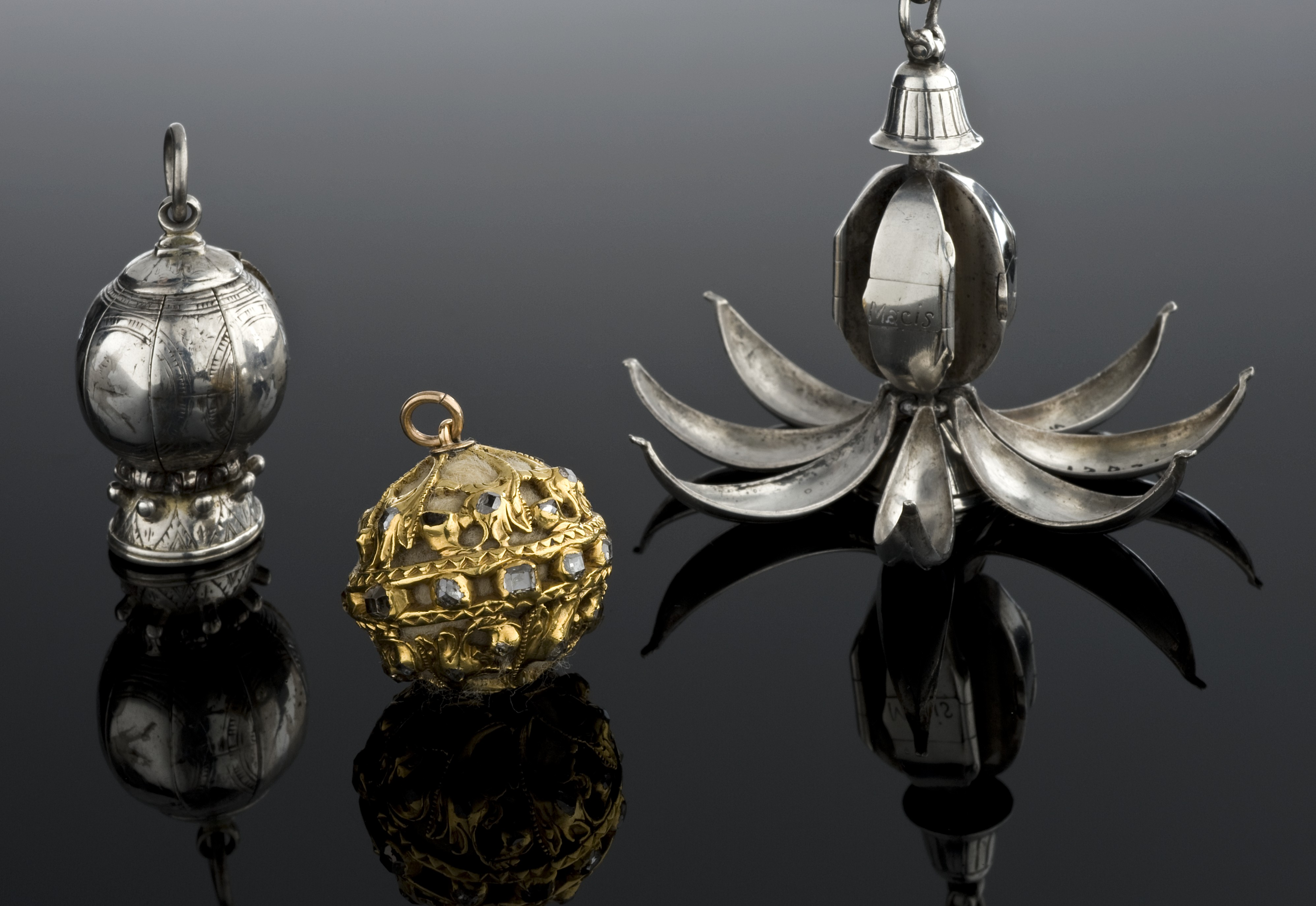 Selection of gold and silver pomanders, Europe Wellcome Images